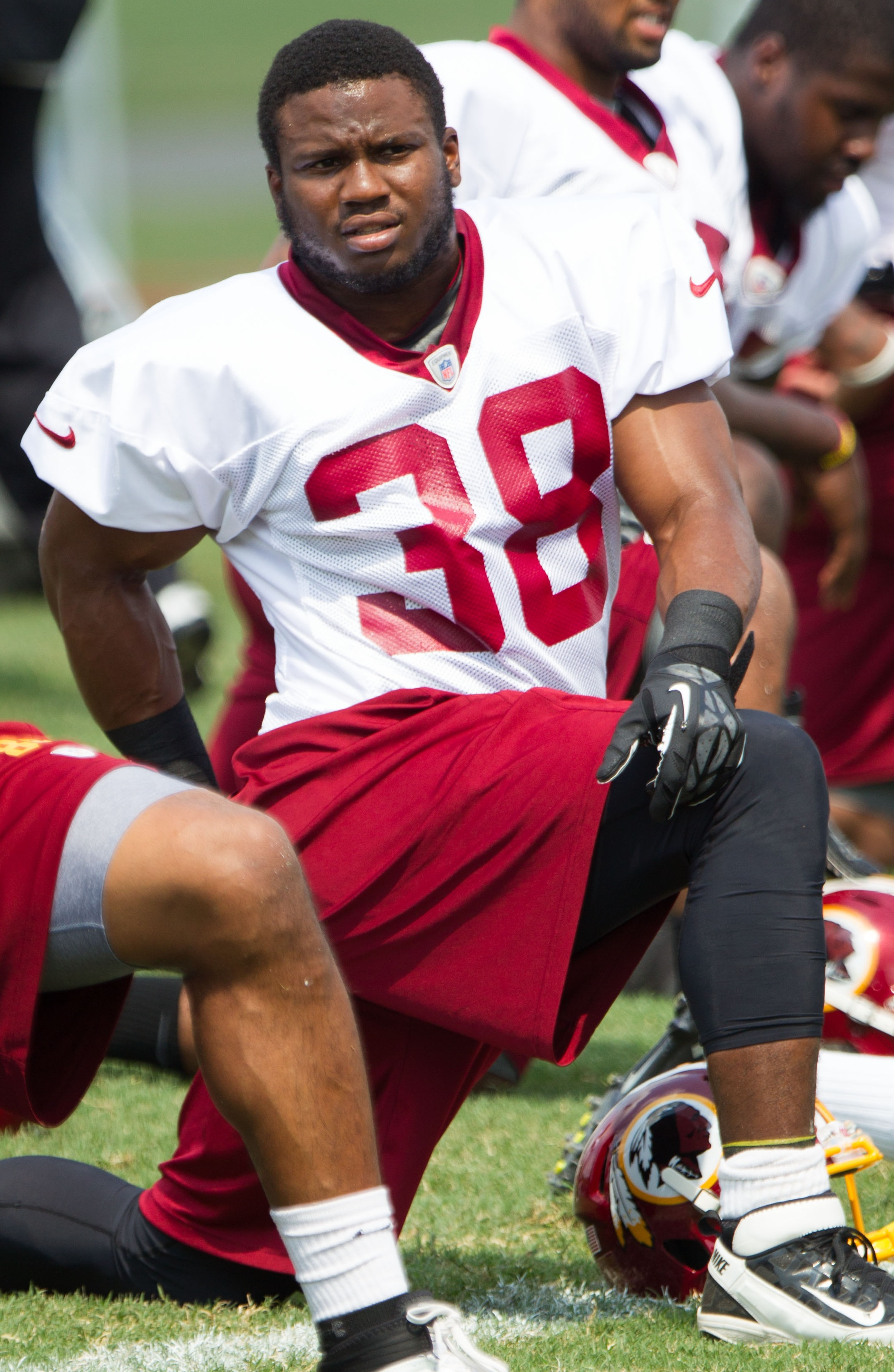 Tristan Davis at Washington Redskins Training Camp August 2, 2012